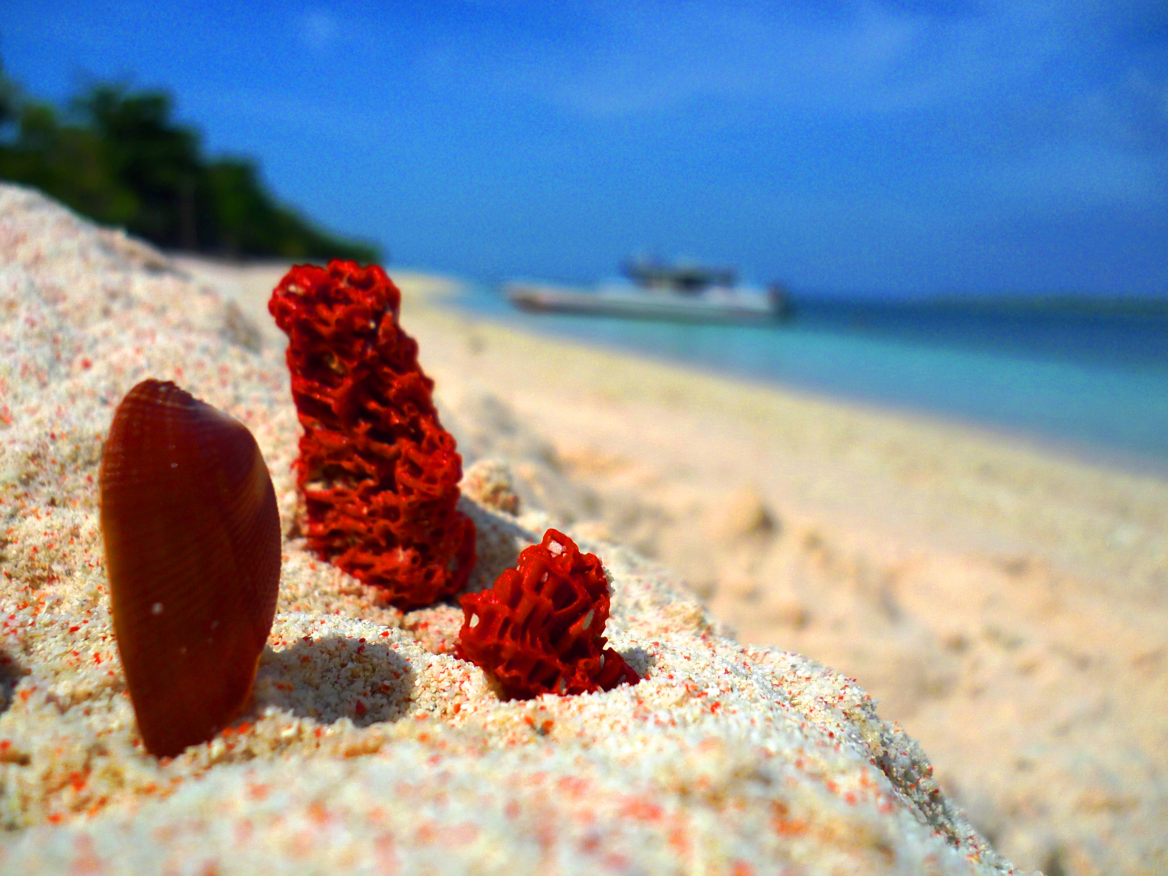 Isla Great Santa Cruz, Zamboanga City